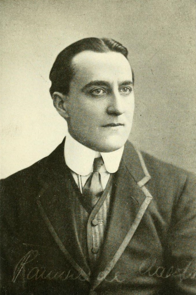 Portrait of Ramiro de Maeztu, by Whiteley